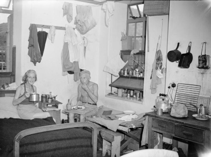 The Far East- Singapore, Malaya and Hong Kong 1939-1945 Occupation and Captivity February 1942 - August 1945: The living conditions at Stanley Civil Internment Camp, Hong Kong (photographed after liberation in 1945). Two internees are shown in a room normally occupied by seven.